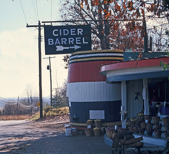 Photograph by Dan Brodt.